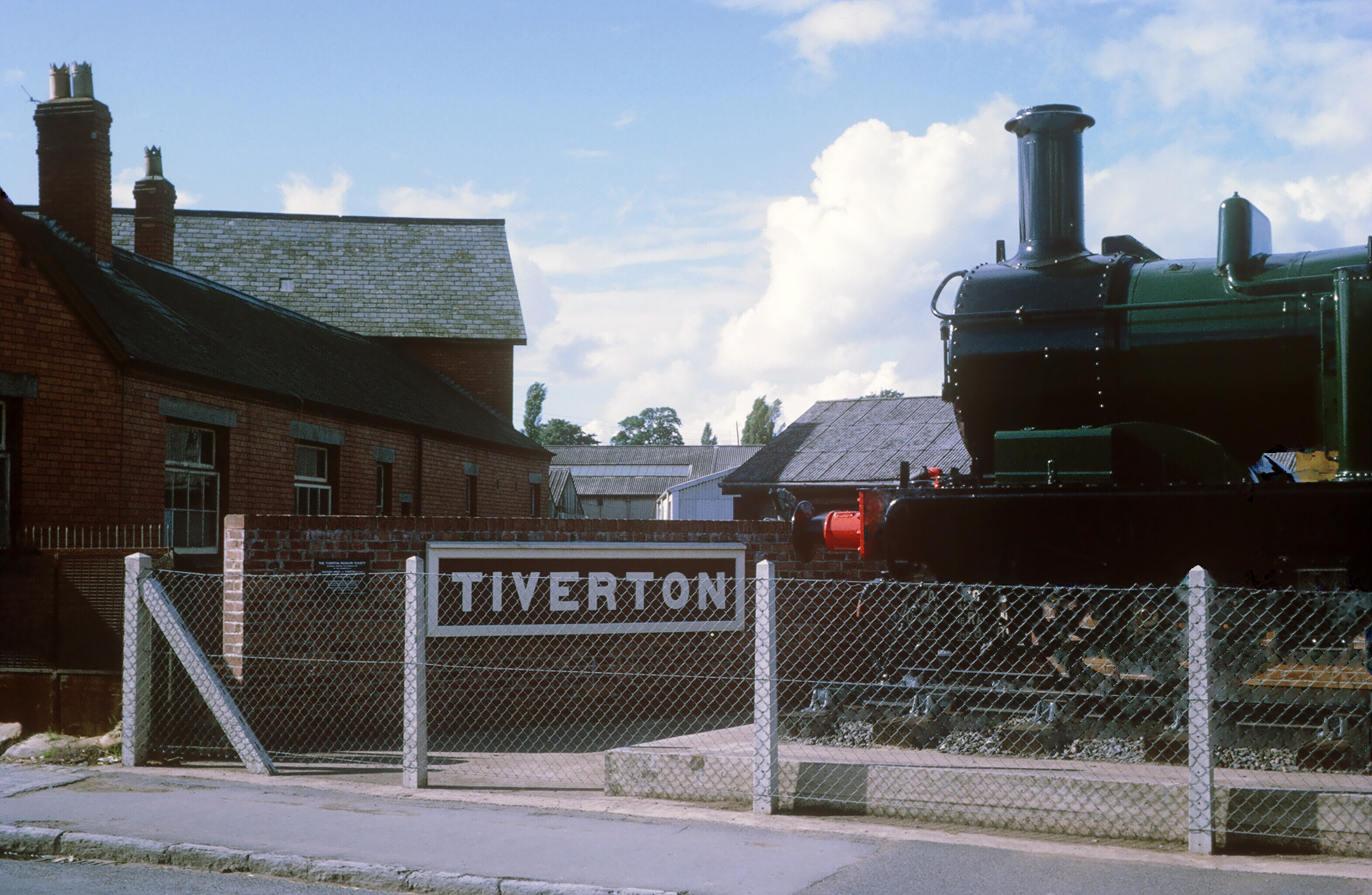 Station sign and GWR 0-4-2 locomotive 1442, Tiverton, Devon, taken in 1968